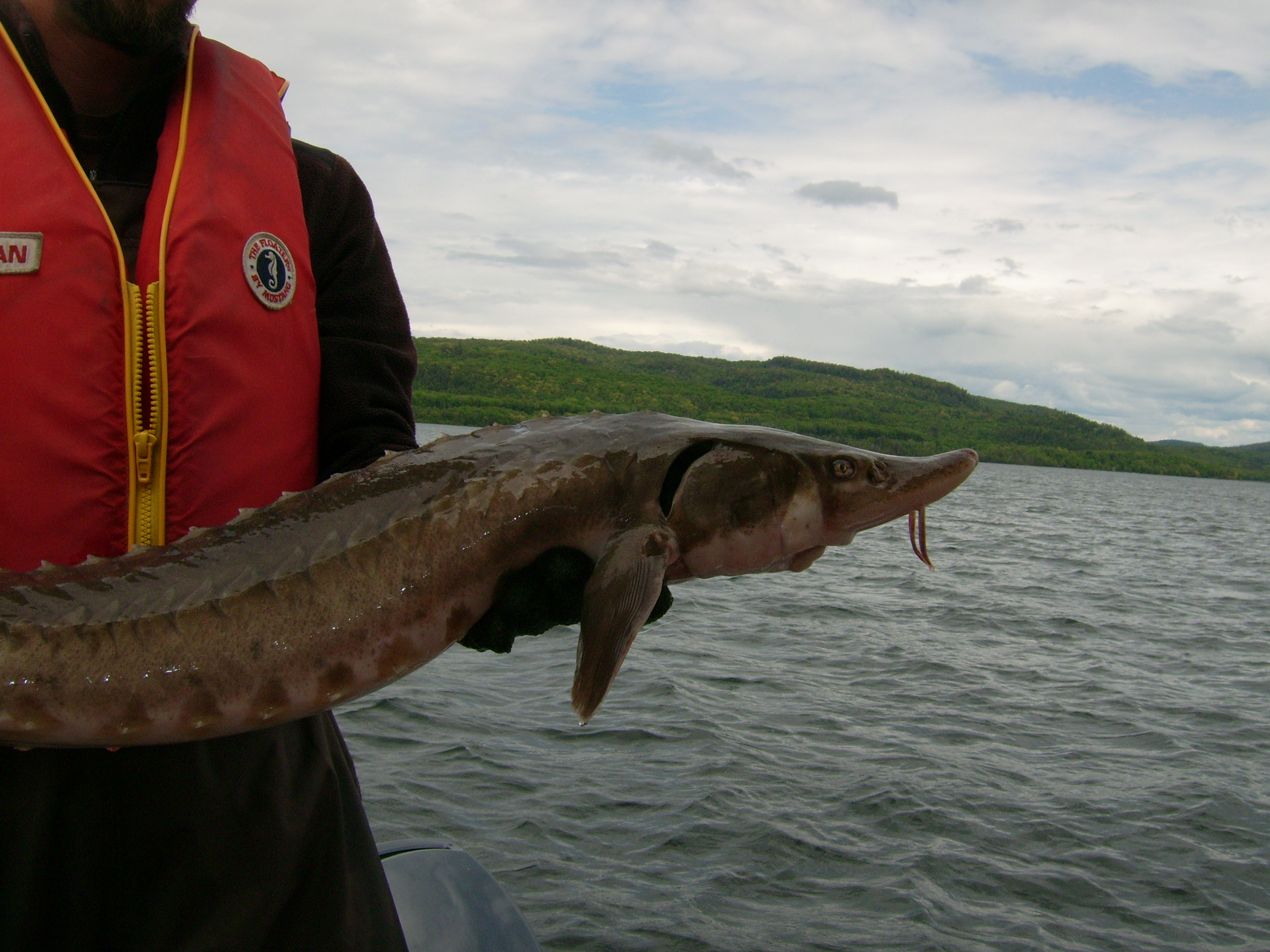 Lake sturgeon (Acipenser fulvescens), Batchawana Bay, Lake Superior